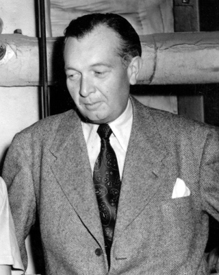 L. to R. : Charles Brackett (screenwriter), Billy Wilder (director) & Doane Harrison (editor) - publicity still (on the set of The Major and the Minor (1942)?)